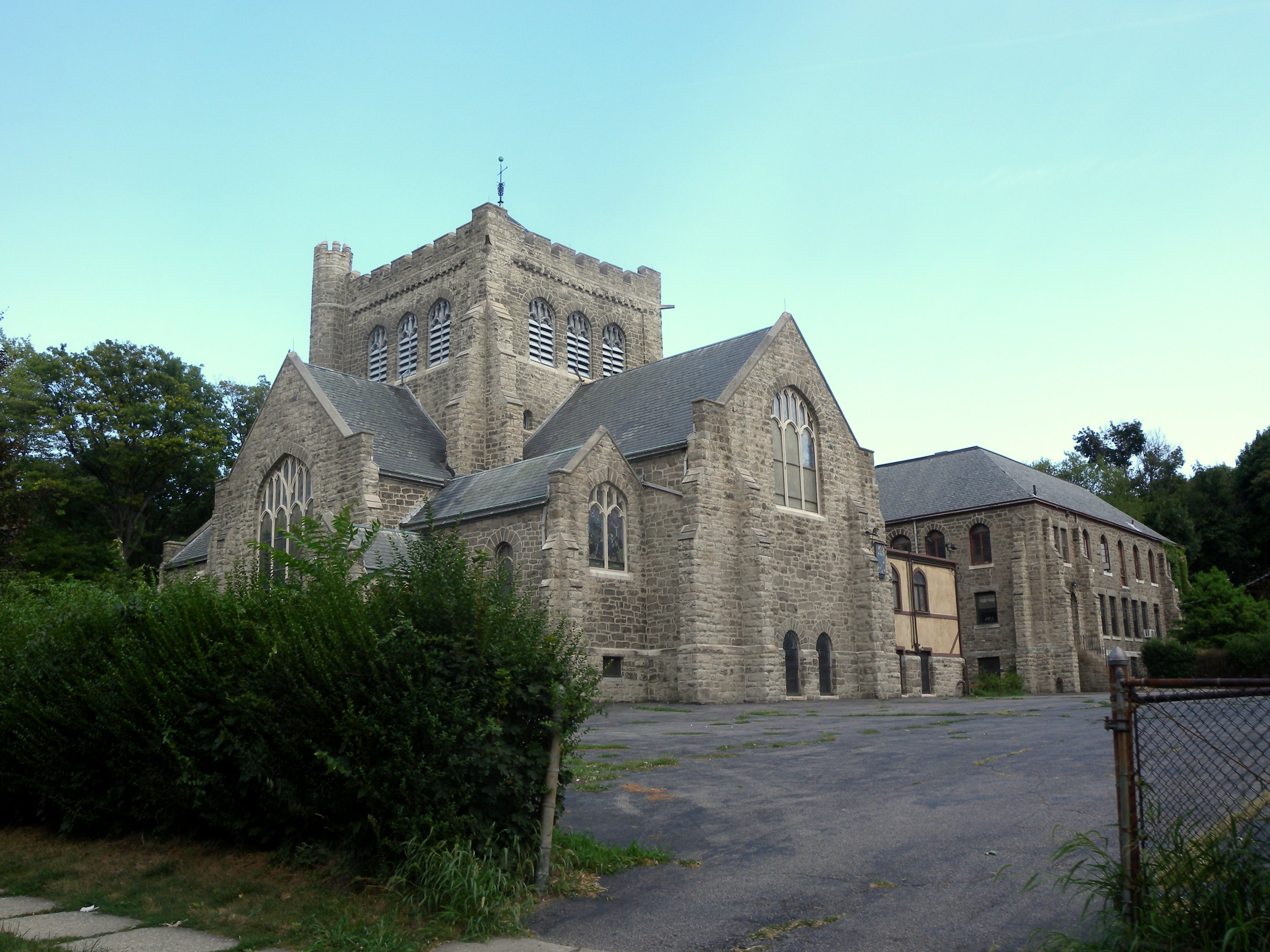 Looking southeast at Christ Church Episcopal on a cloudy afternoon. Henry M Congdon, architect.